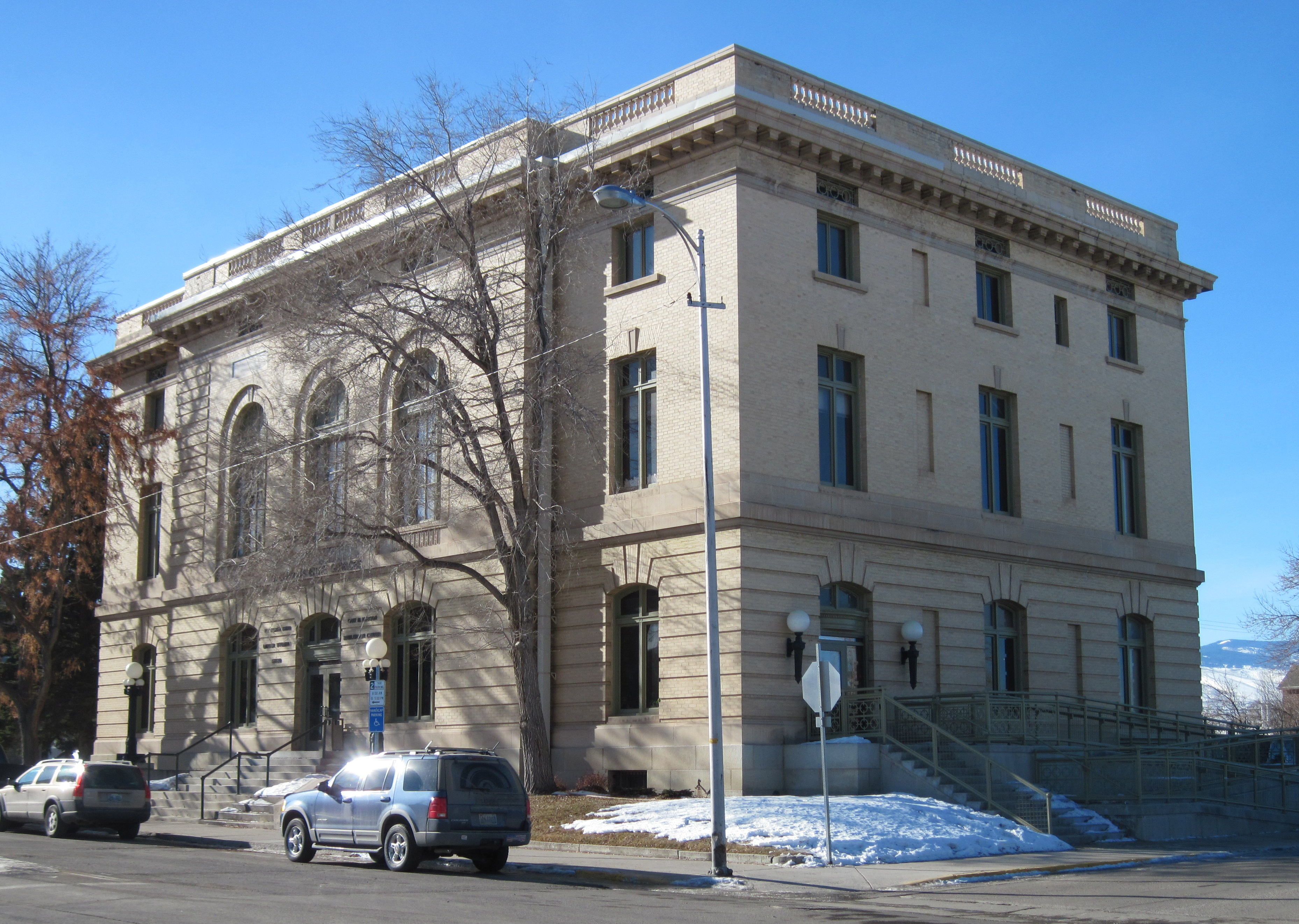 United States Post Office and Courthouse (Lander, Wyoming). The edifice now houses offices. Northeast elevation.